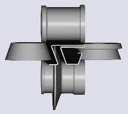 Roll Forming Stand Created by UBECO PROFIL